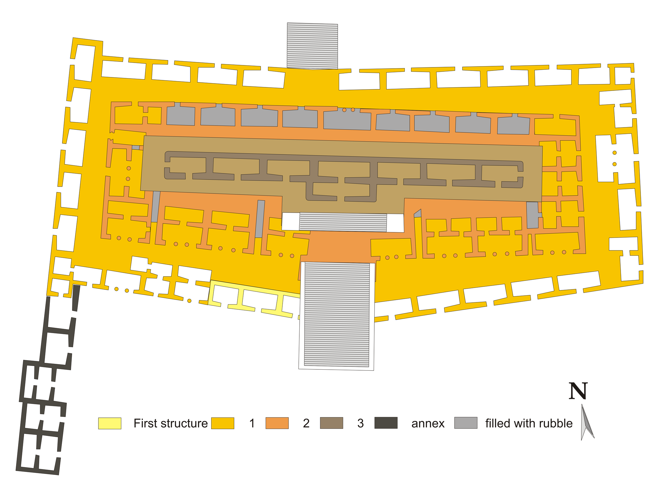 Plan of the Mayan three story palace at Sayil — in Yucatan, Mexico.